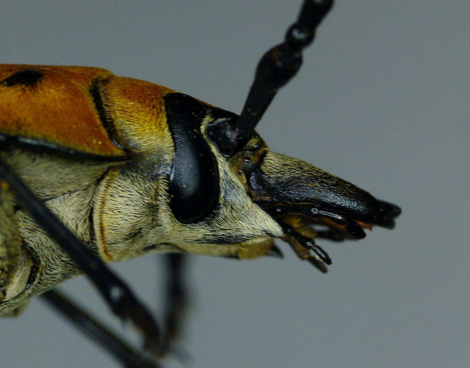 Trictenotoma grayi, Trictenotomidae, Tenebrionoidea. Specimen from Mudigere, India.